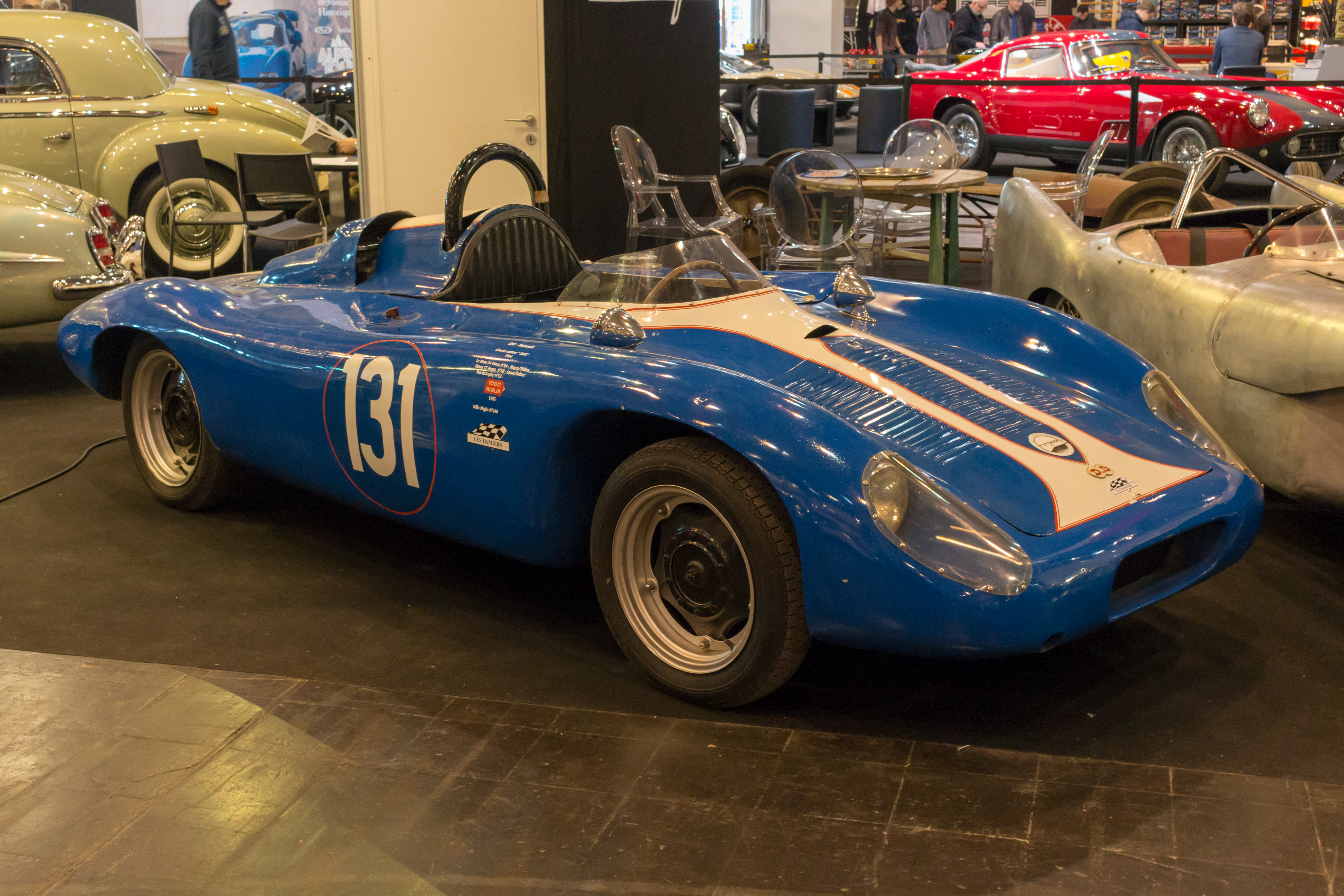 Techno Classica 2018, Essen